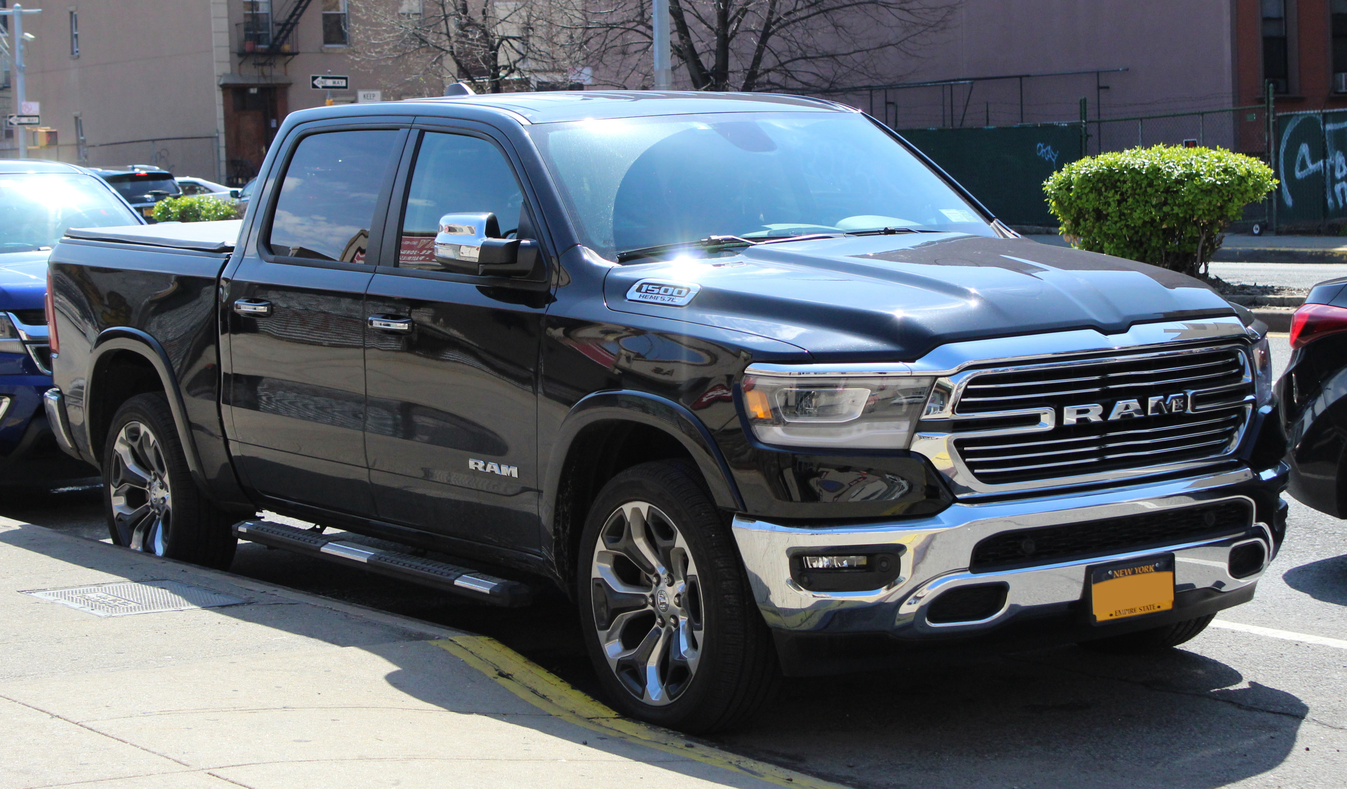 A 2019 Dodge Ram 1500 photographed in Greenpoint, Brooklyn, New York, USA